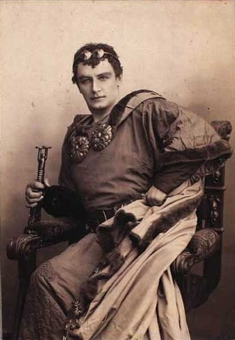 Martinius Valdemar Nielsen (1859-1928), Danish actor and theatre manager